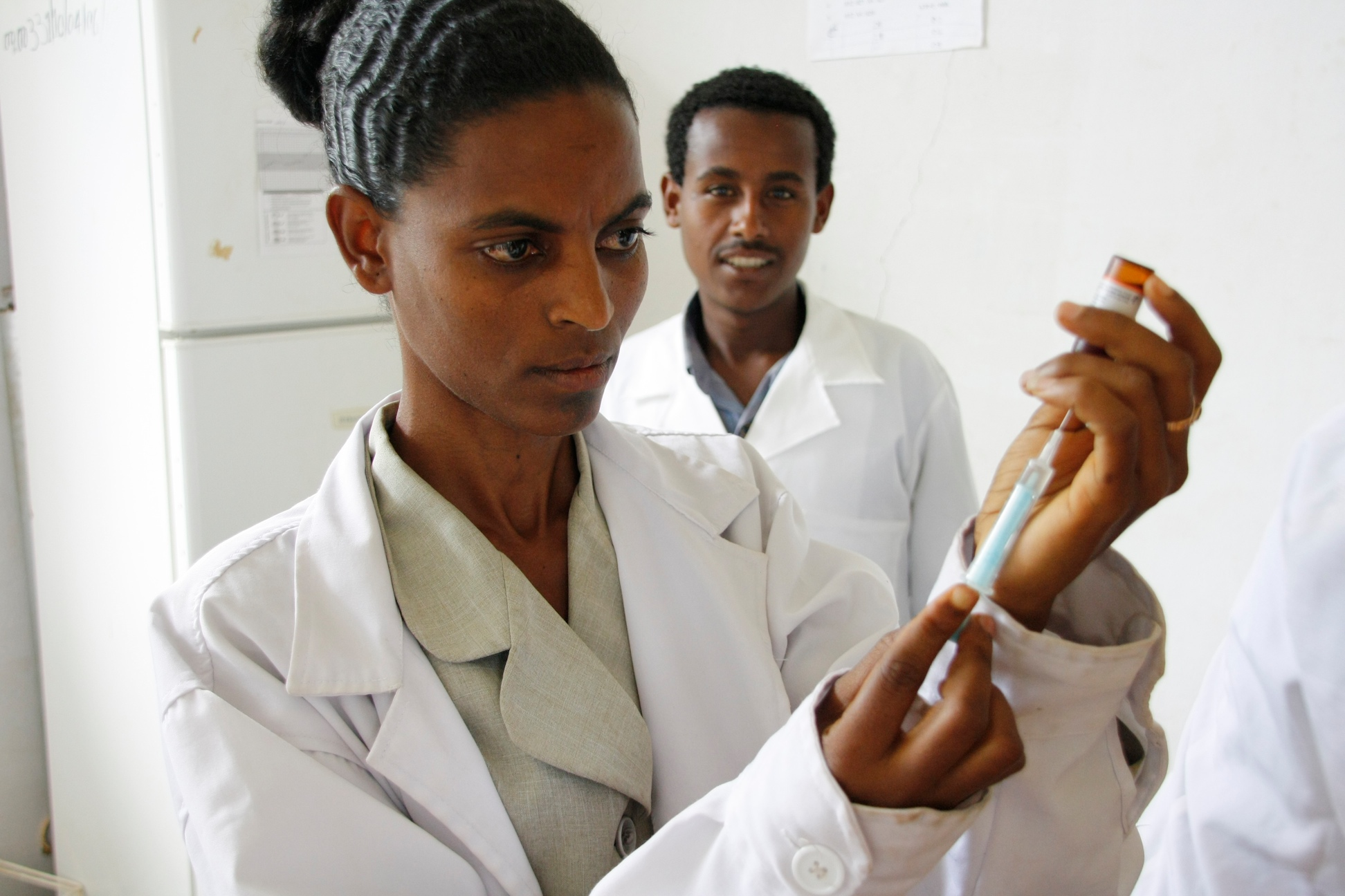 A nurse at Merawi health centre in northern Ethiopia prepares a measles vaccine for delivery. Ethiopia is one of more than 70 developing countries benefitting from the support of the GAVI Alliance. Three years ago, there were fewer than 750 health centres across Ethiopia. Now, thanks in part to support from British aid, there are more than 2100 health centres providing vaccinations and other life-saving care. To find out more, please see the full story at: Picture: Pete Lewis / DFID Terms of use This image is posted under a Creative Commons - Attribution Licence , in accordance with the Open Government Licence . You are free to embed, download or otherwise re-use it, as long as you credit the source as 'Pete Lewis / Department for International Development'.